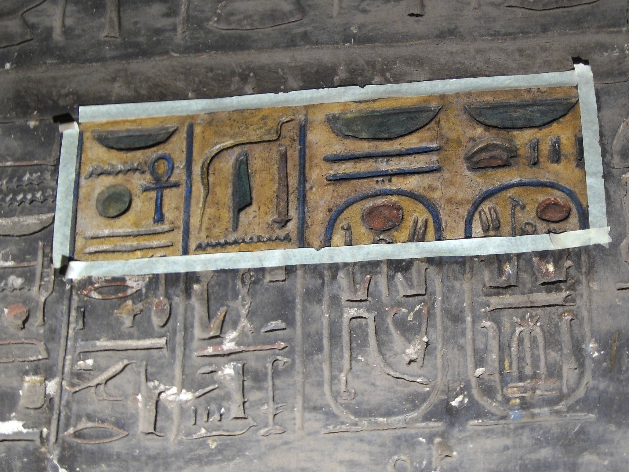 Restoration work on wall paintings in the Sanctuary of Khonsu Temple in the Precinct of Amun-Re at Karnak Temple